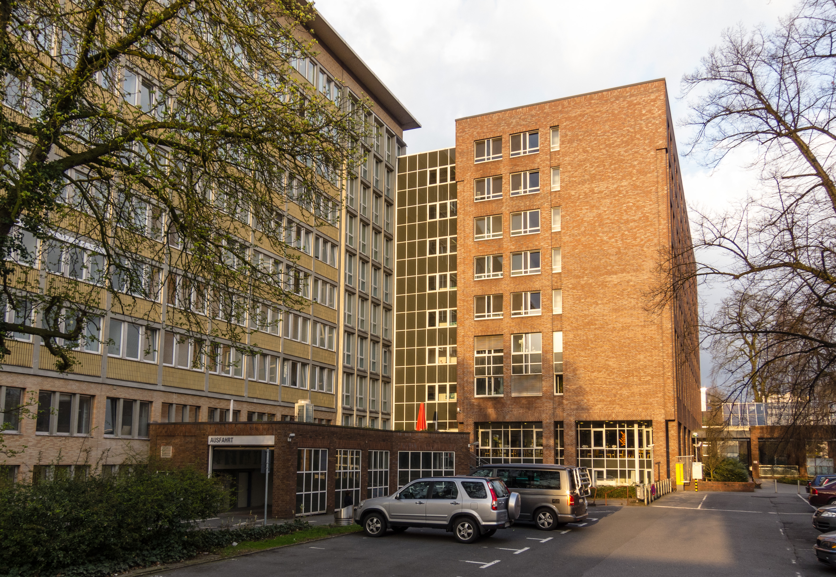 Klinikum Dortmund, Klinikzentrum Mitte (city centre); left Building A2 with old entrance for ambulances, right Building A1 with main entrance